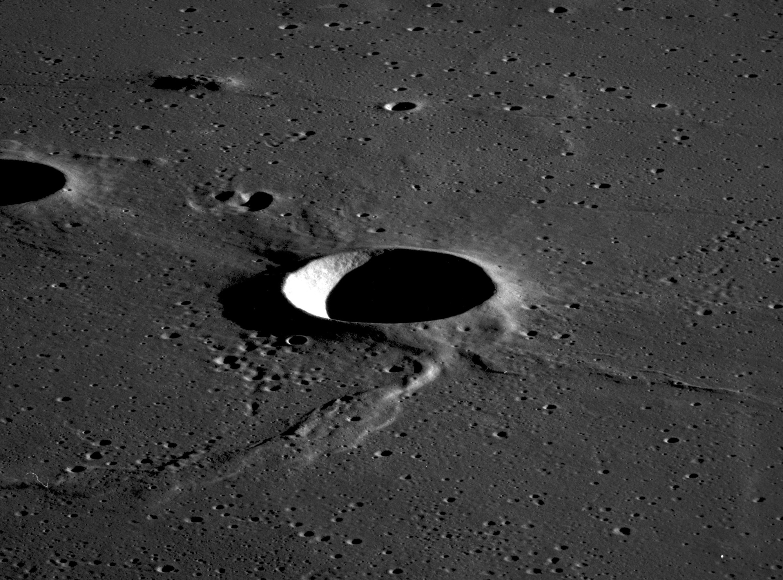 Oblique view of Sinas, on the moon. Facing north.